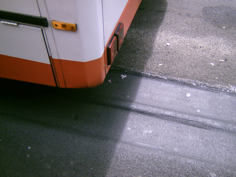 Lane grooves behind a bus in Cologne, Germany. Bus station Neumarkt.